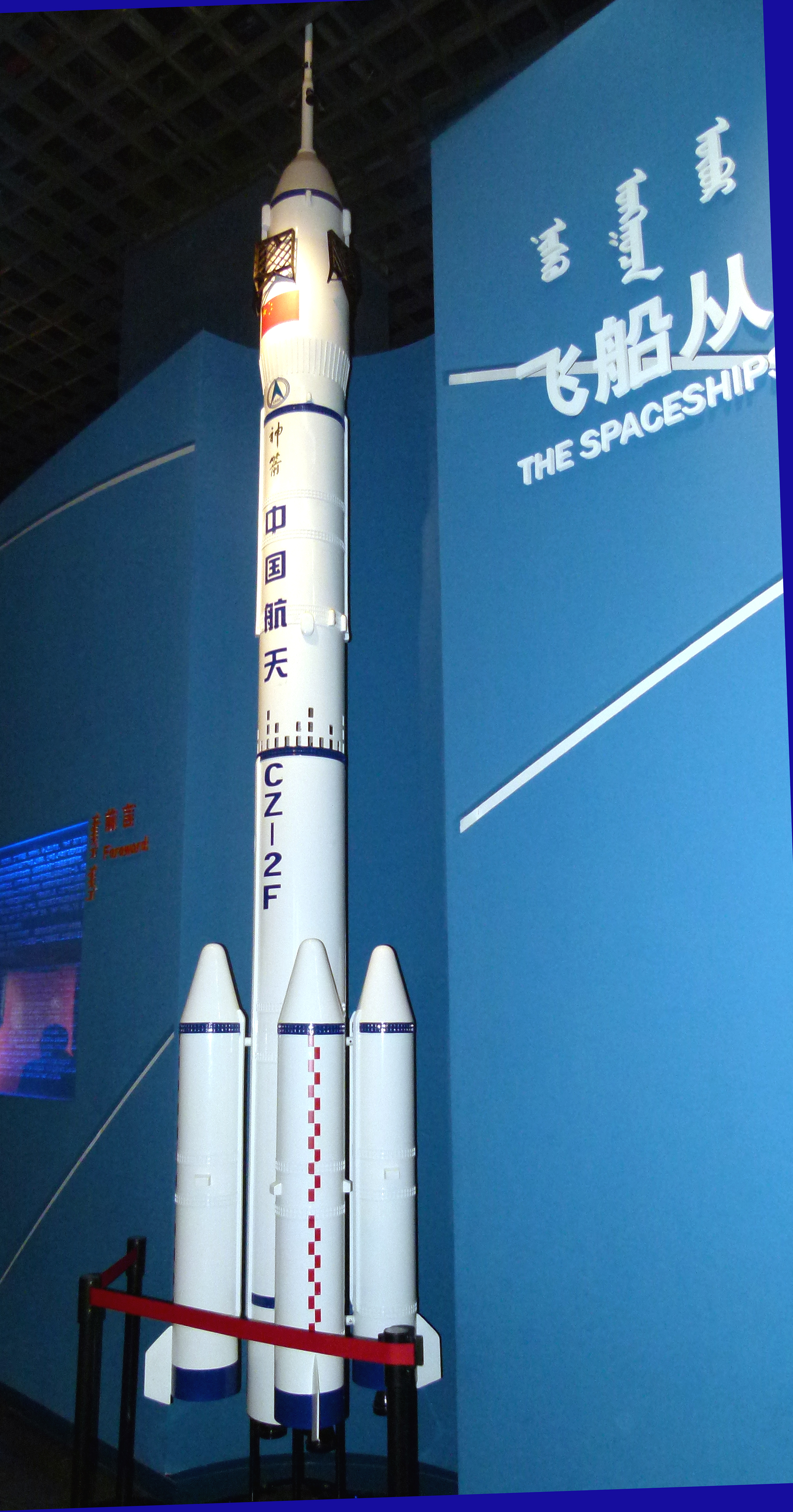 Model of Chinese rocket Long March CZ-2F, Space technology exhibition in Hohhot, Inner Mongolia, China